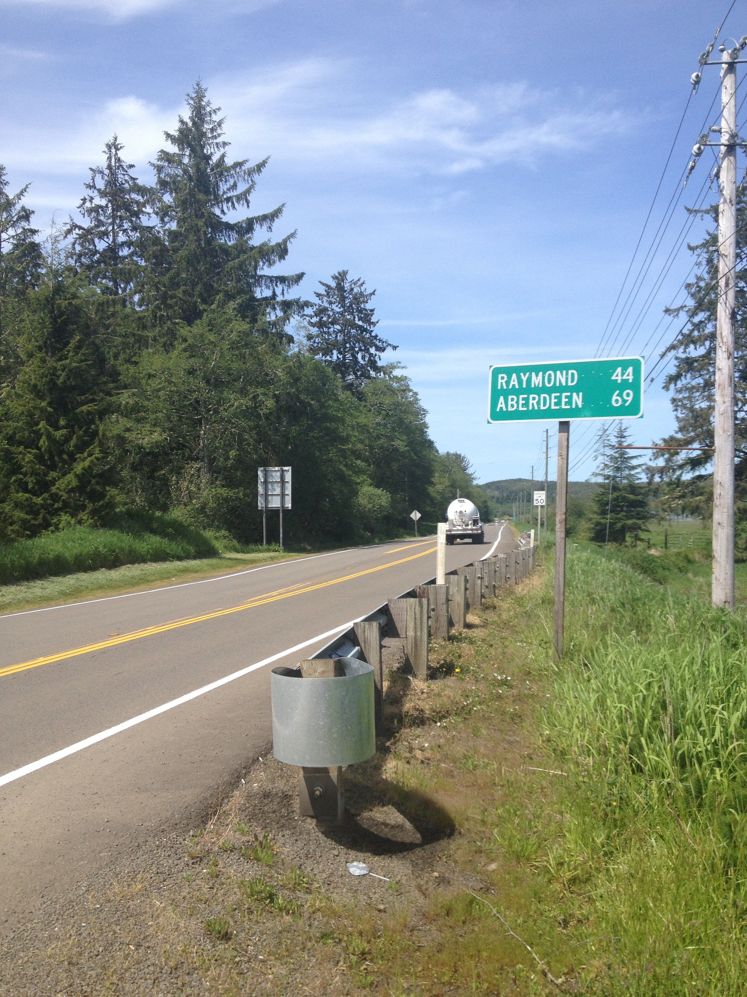 US 101 Alternate near Long Beach, Washington.